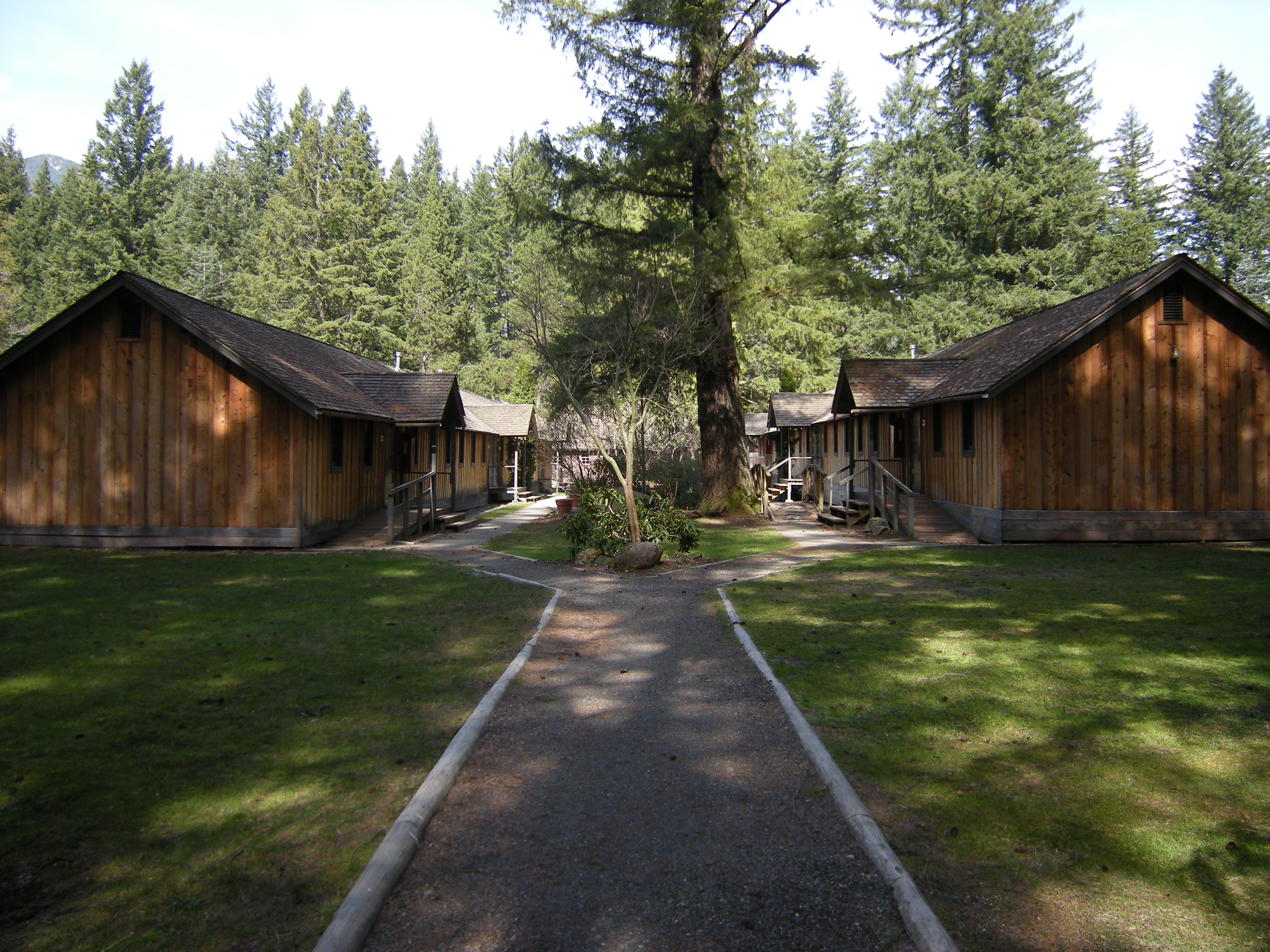 Dormitory buildings, Camp Waskowitz, North Bend, Washington. A Forest Service Civilian Conservation Corps camp as Camp North Bend 1935–1942, the camp was purchased by the Highline School District in 1958, designated a King County landmark in 1992 and listed on the National Register of Historic Places in 1993.